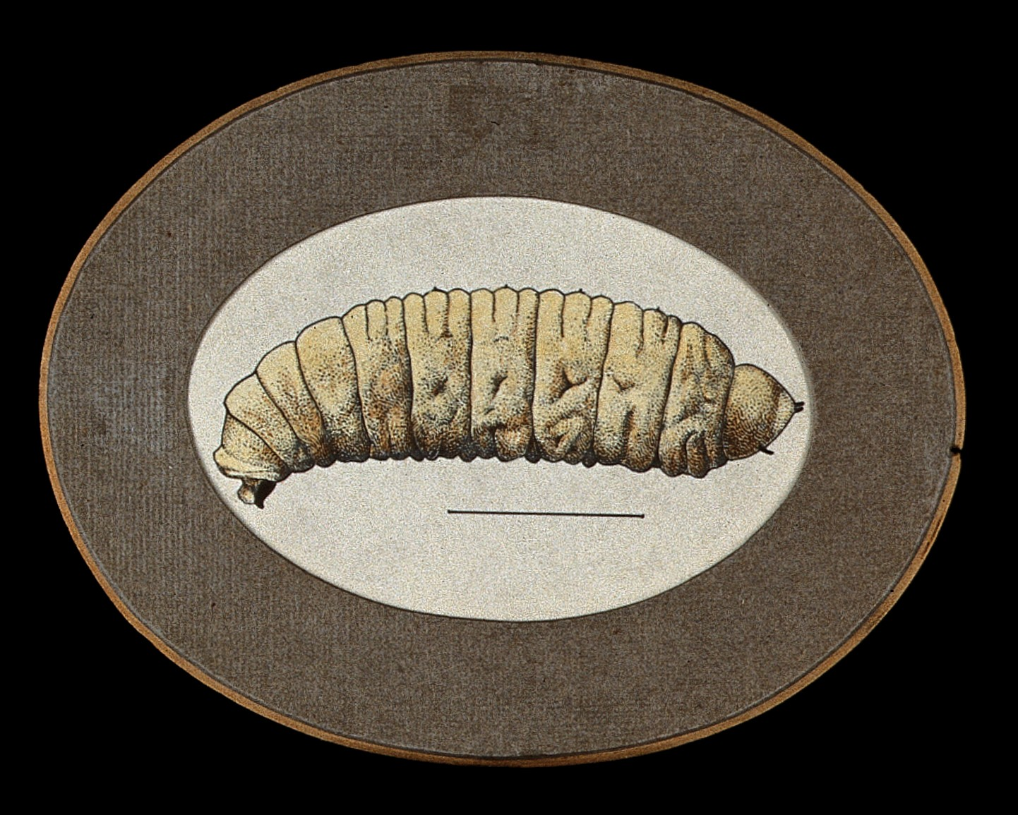 A Congo floor maggot (Auchmeromyia luteola). Coloured drawing by A.J.E. Terzi, ca 1919. Iconographic Collections Keywords: Amedeo John Engel Terzi